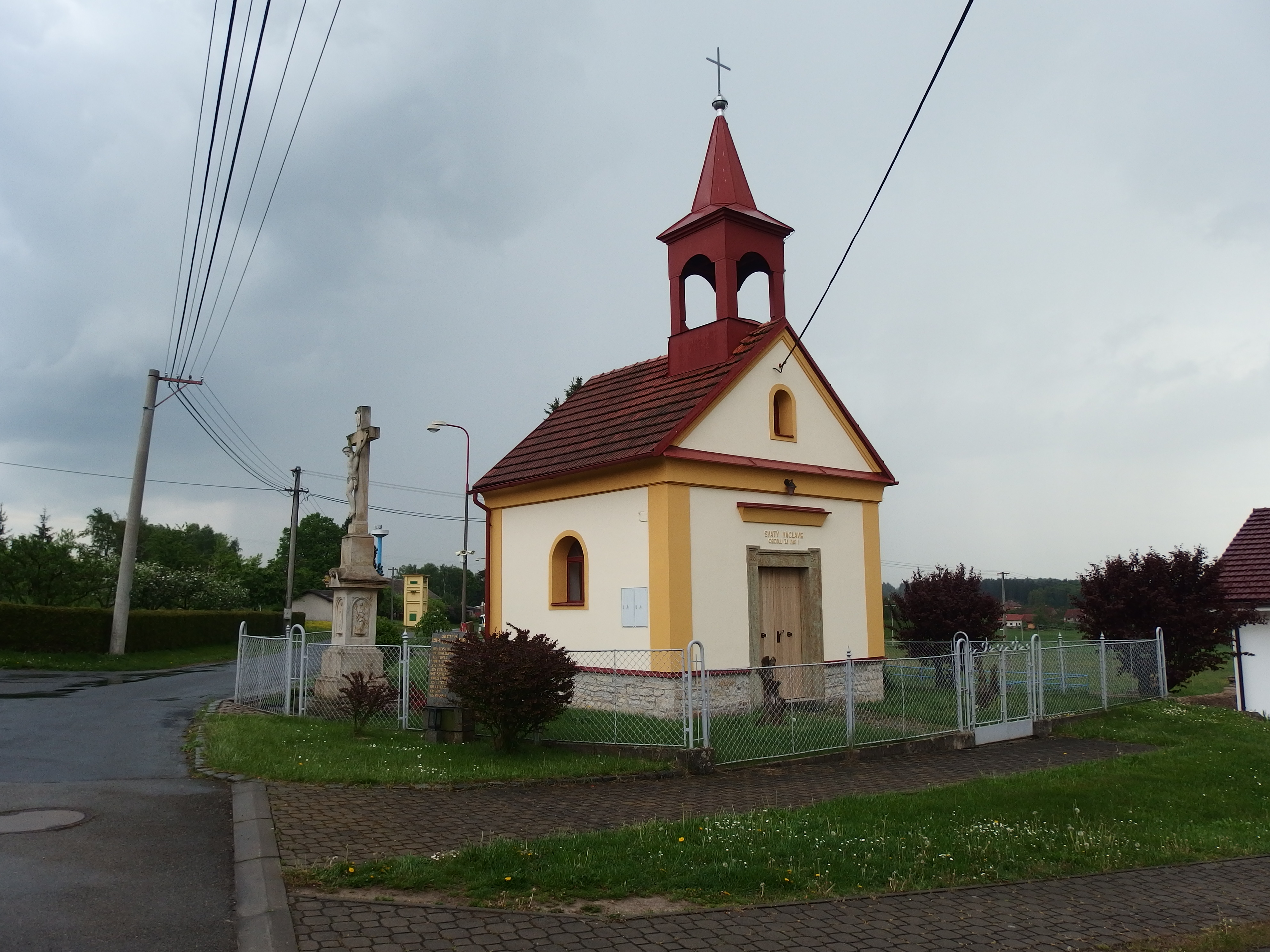 Podlesí, Ústí nad Orlicí District, Czech Republic, part Turov.